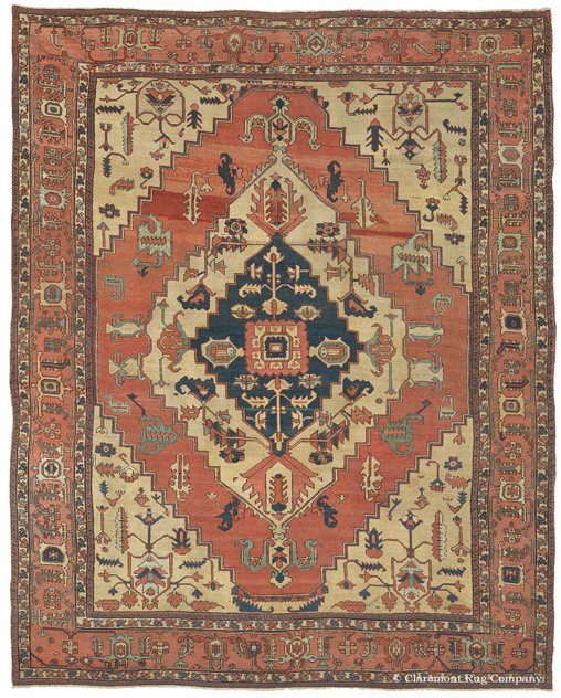 Antique Serapi carpet, Heriz region, Northwest Persia, 9 ft 11 in x 12 ft 10 in, circa 1875